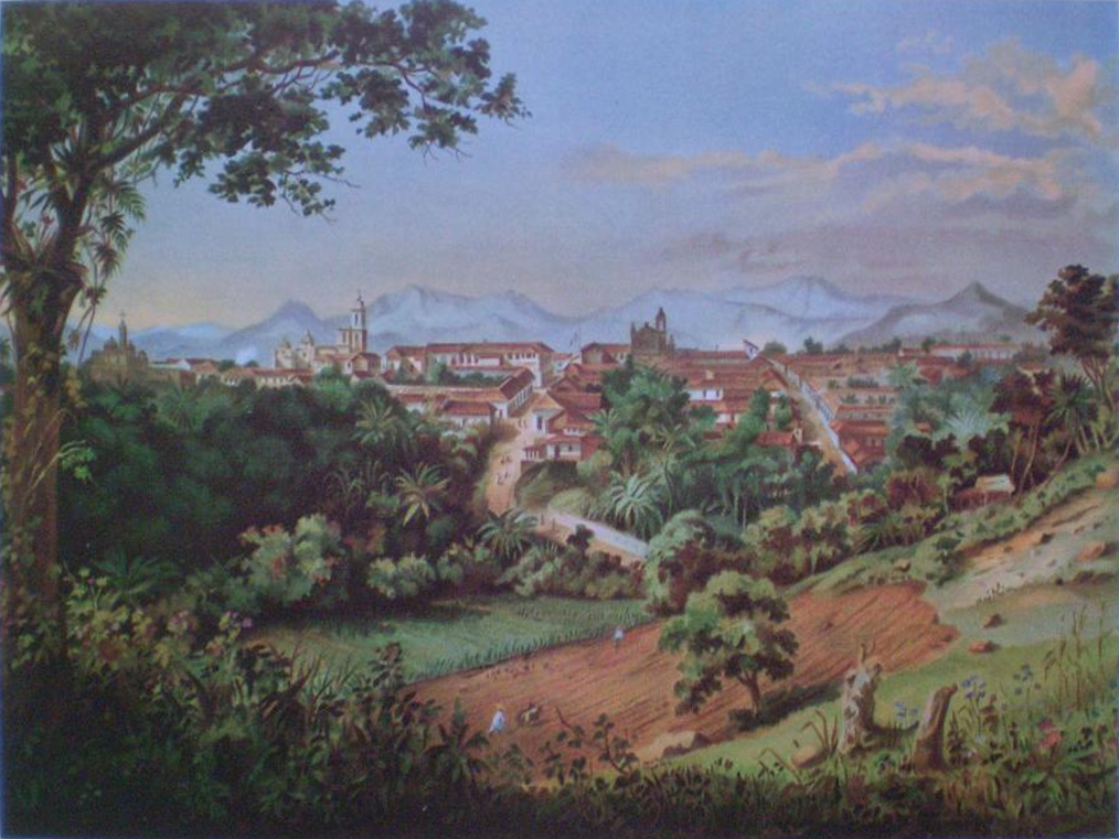 .Picture from the "Album of the Mexican Railway". Pictues by Casimiro Castro. Text by: Antonio Garcia Cubas. Published by Víctor Debray. Year: 1877 Bilanguage edition english and spanish.